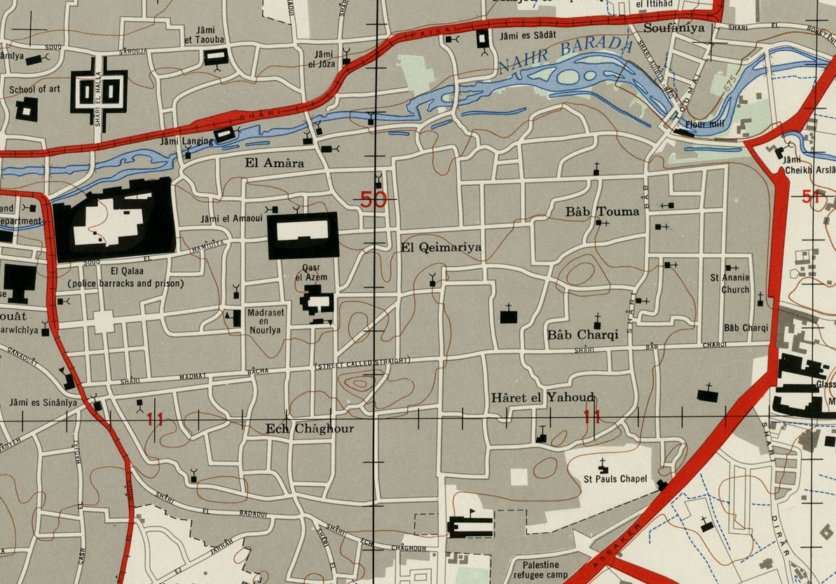 Map of Damascus (Syria) 1:10,000, Edition 2-AMS, Series K922. U.S. Army Map Service. Cropped: Old City, 1958